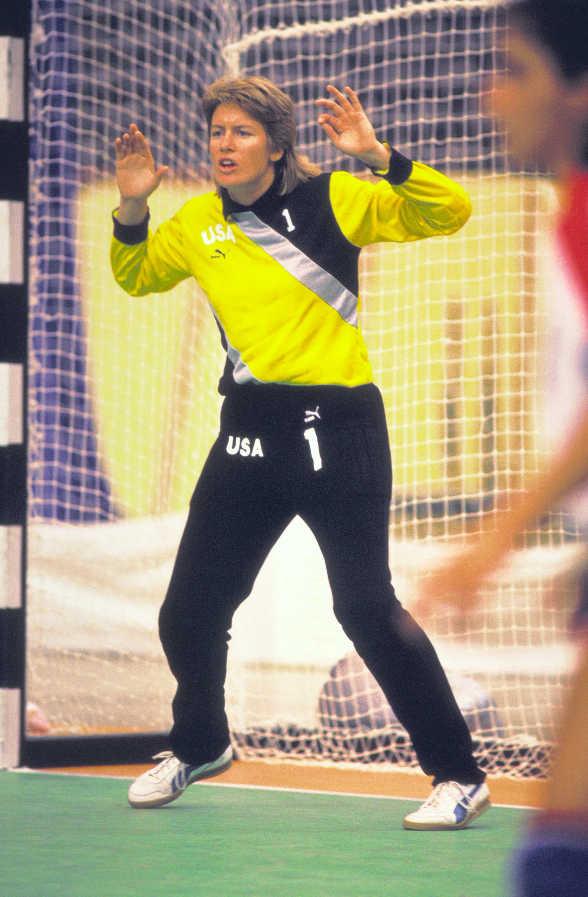 Kathy Callaghan shouts instructions to her teammates as she stands in goal during a women's handball game at the 10th Annual Pan American Games. The U.S. women's team delivered a gold-medal-winning performance at the games. Exact Date Shot Unknown.